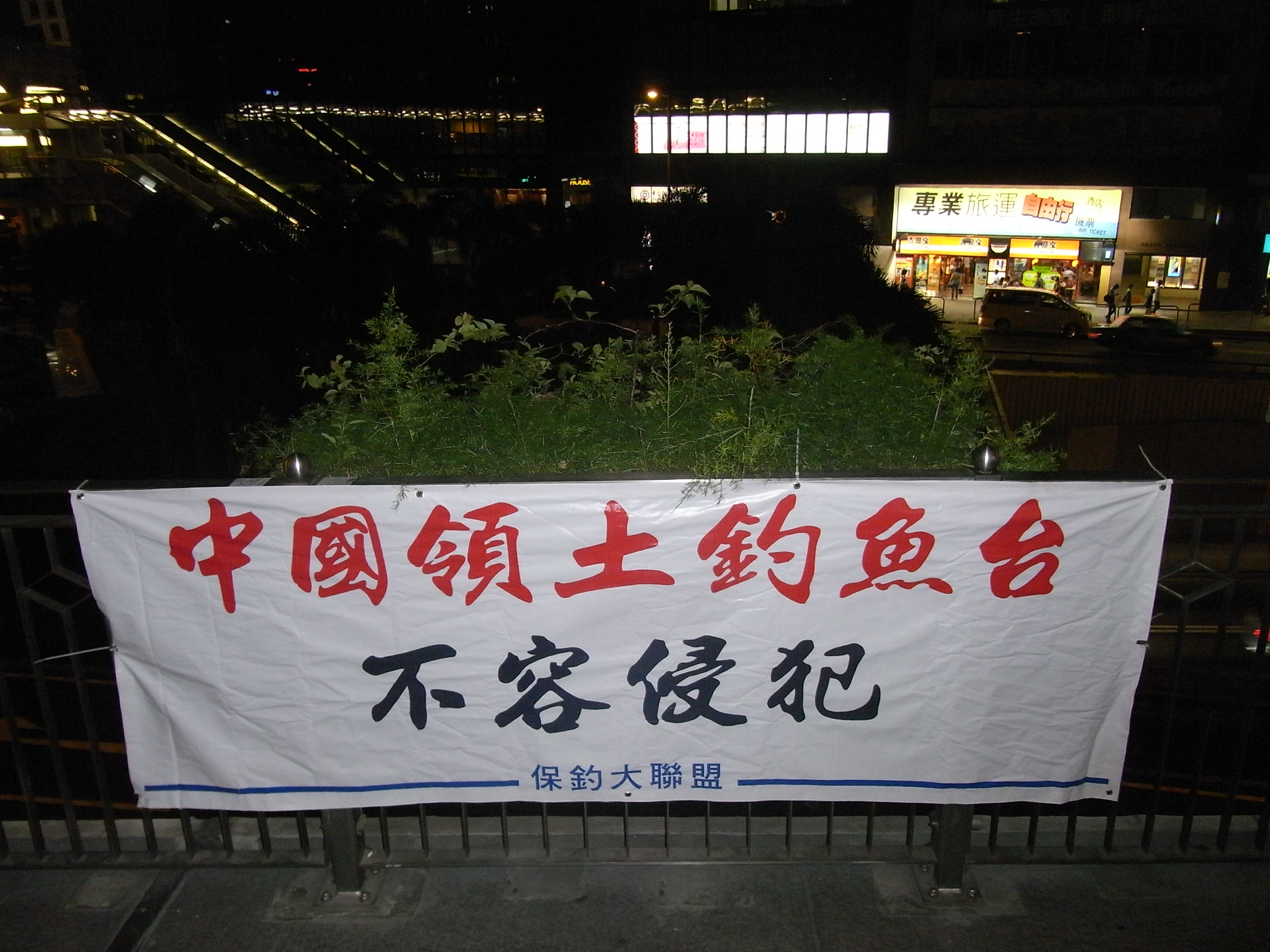 White banner, Central, Hong Kong